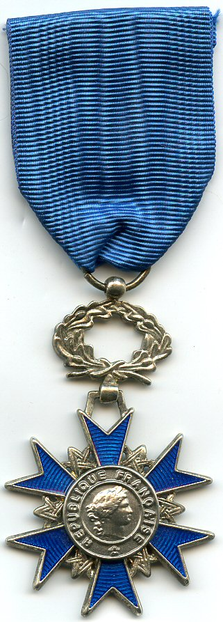 Knight of the National Order of Merit, France, obverse